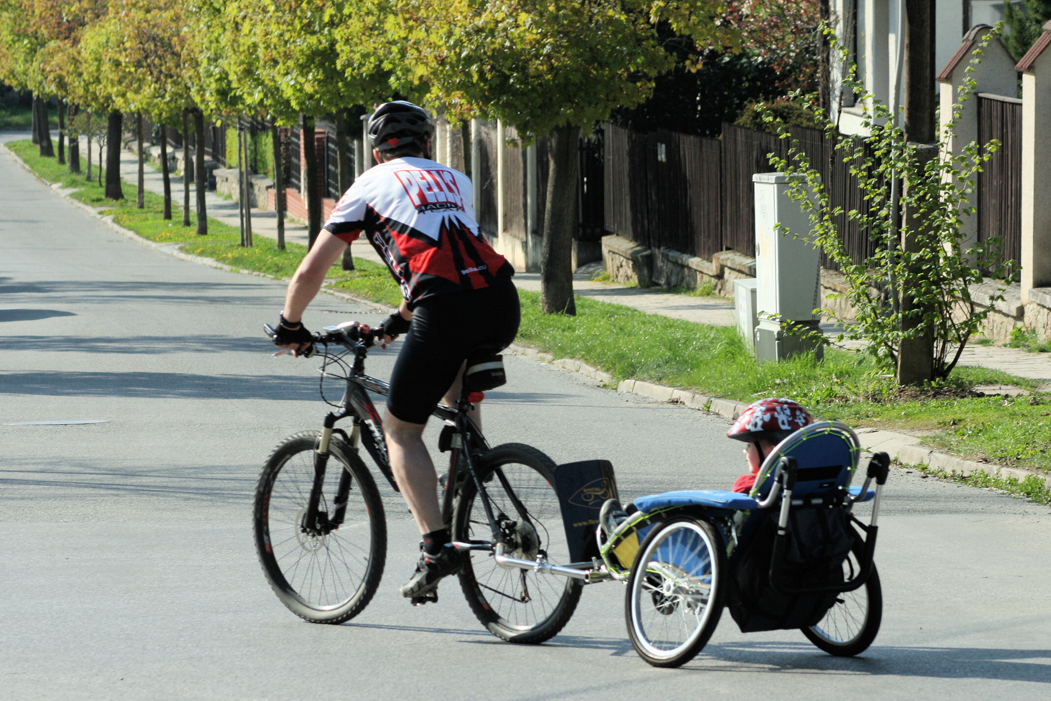 Family cycling in Brno, Czech Republic. Česky: Cyklista jedoucí s dětským přívěsem ulicí Jana Nečase, Brno-Žabovřesky.